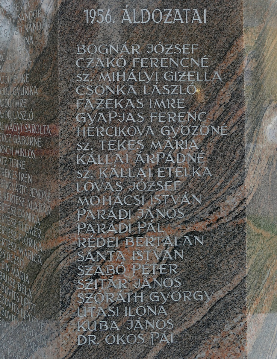 Monument of 1956 revolution in Tiszakécske, Hungary